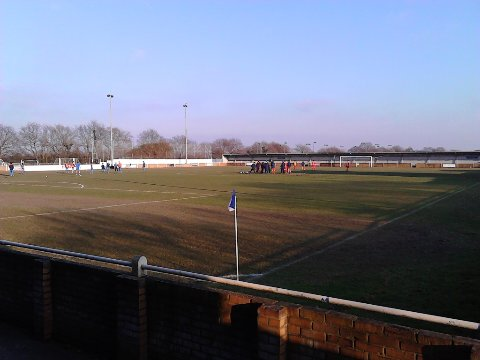 Wivenhoe Town's stadium Broad Lane prior to a league fixture against Hadleigh United on 21 January 2017.